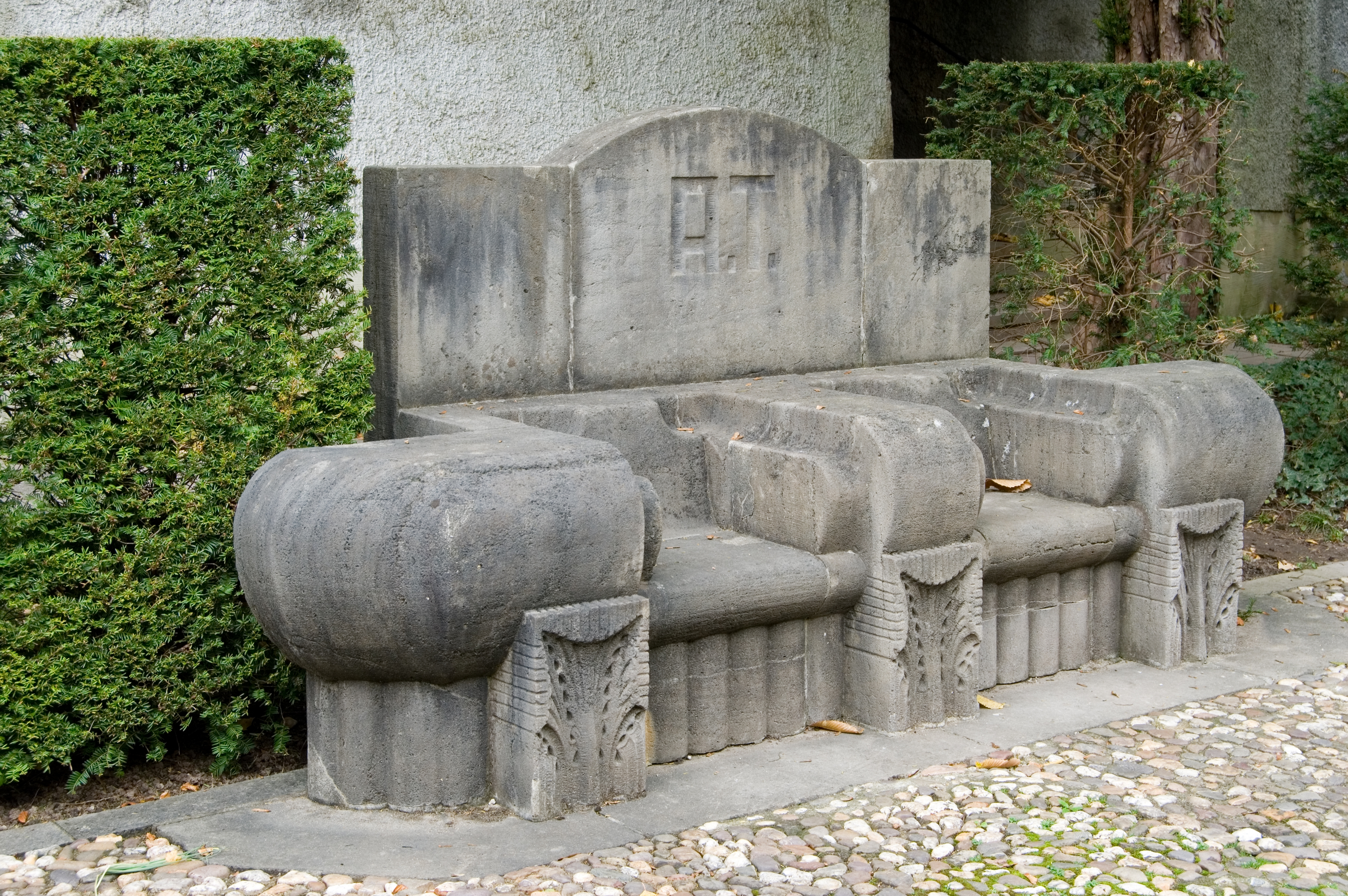 Ratingen (North Rhine-Westphalia, Germany) – Landsberg Castle – a bench in the castle grounds This photograph was taken with a Nikon D3000